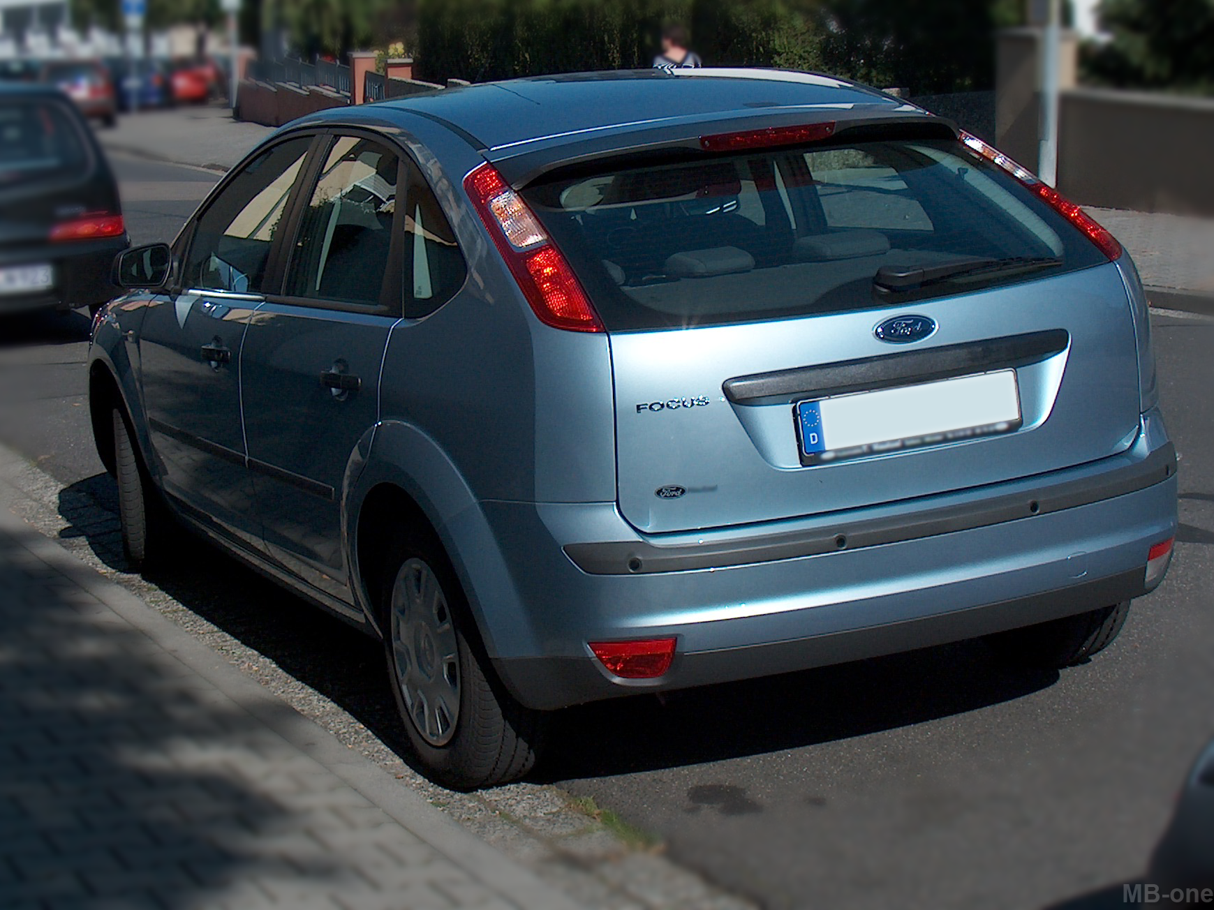 Ford Focus, 2nd Generation